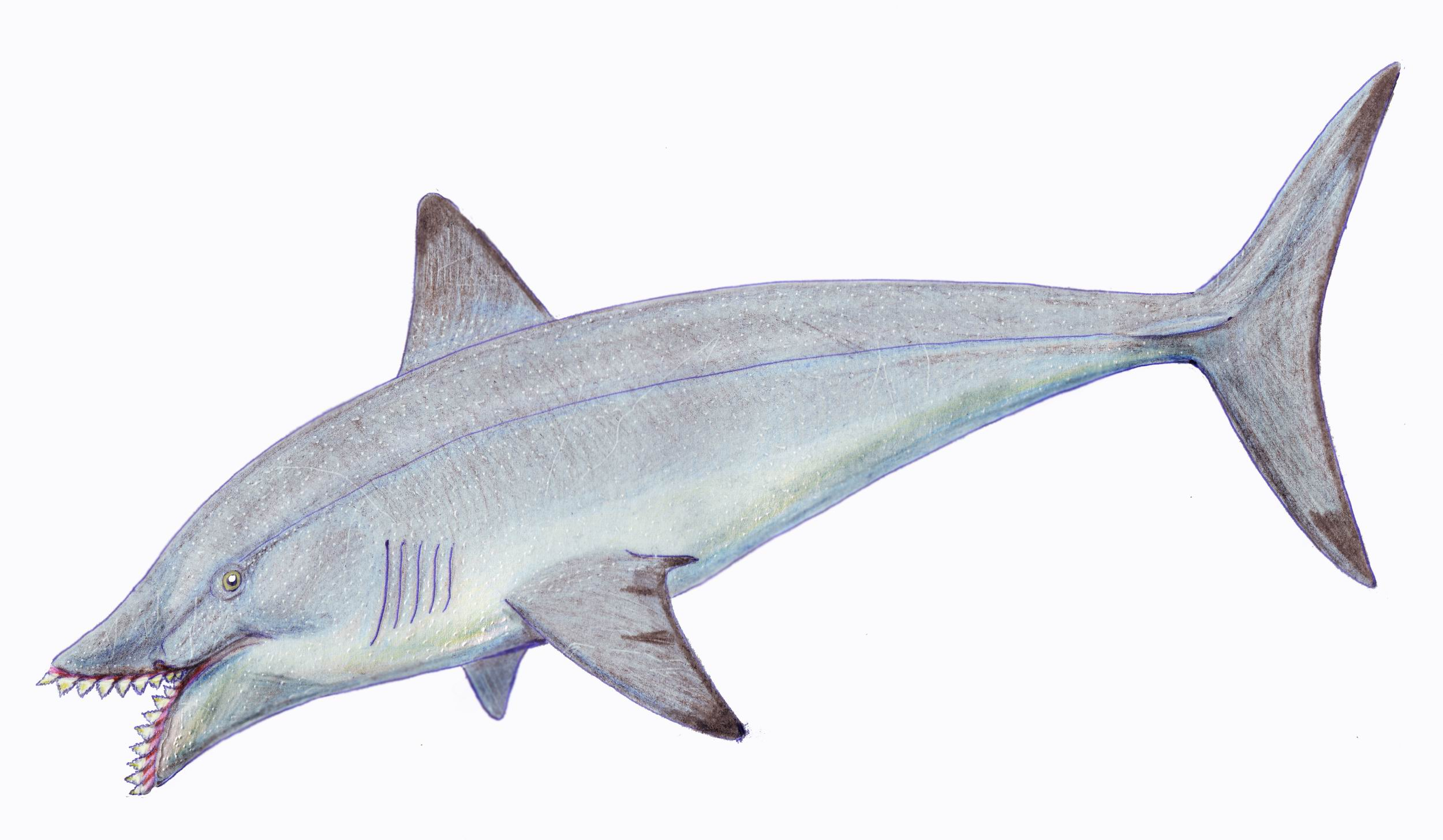 Edestus protopirata - edestid "shark" from Middle Carboniferous of Moscow region. Highly hypotetical reconstruction.